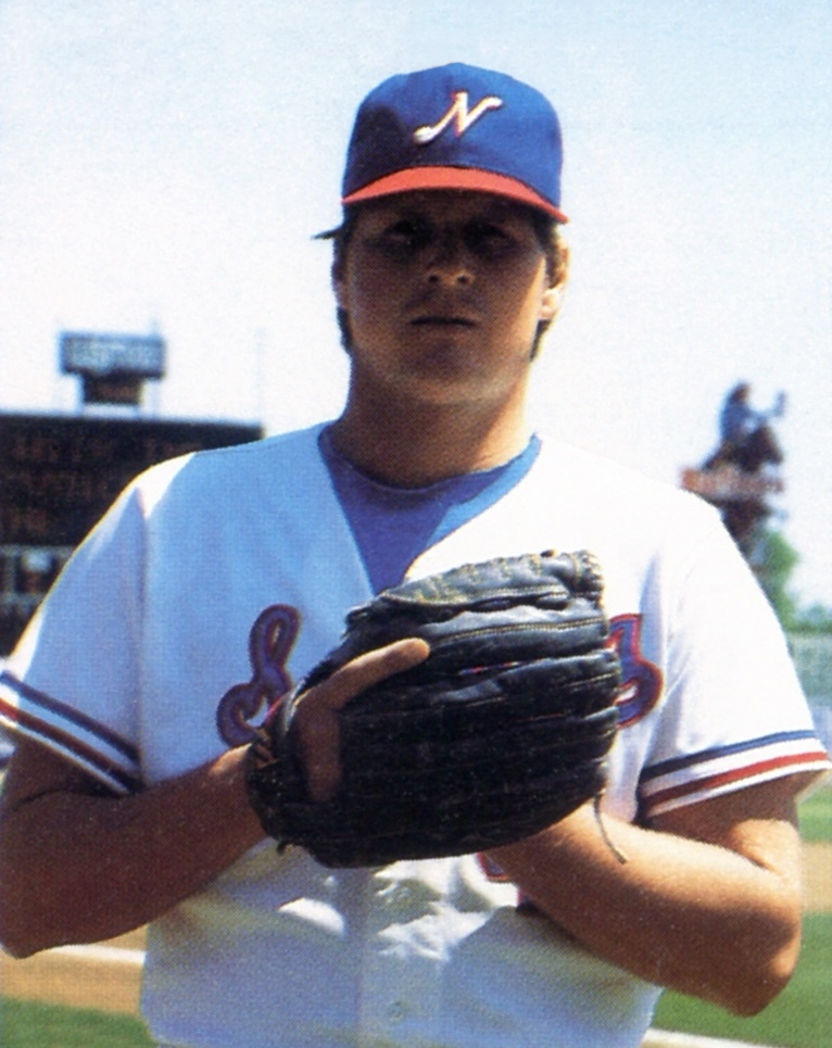 Pitcher Mike Jones of the 1988 Nashville Sounds Minor League Baseball team of the American Association